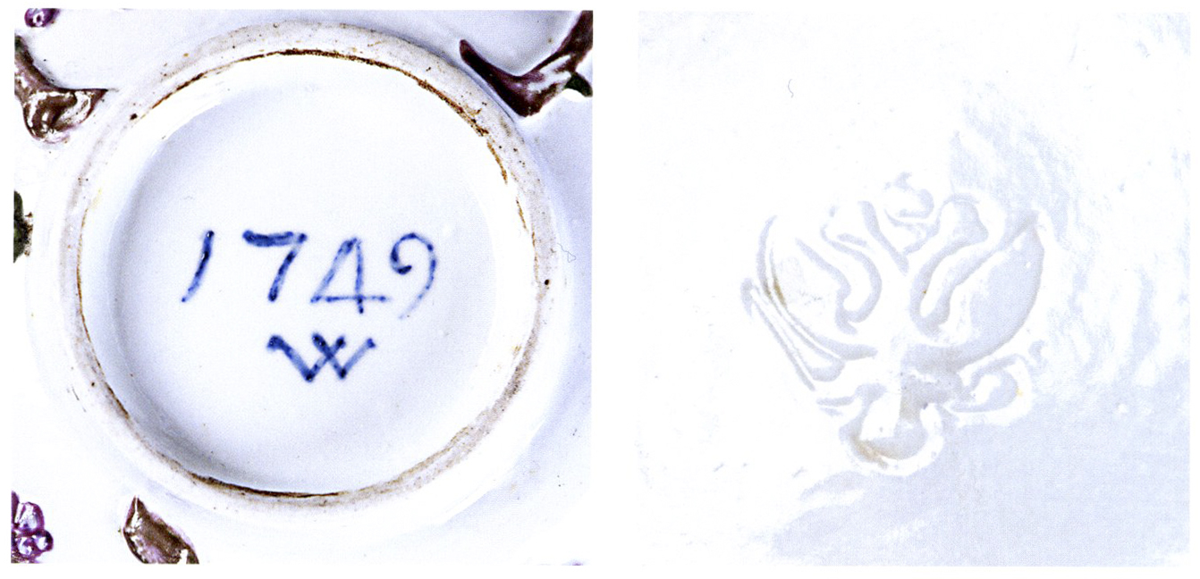 Dmitry Vinogradov. Personal stigma and the Vinogradov brand china. 1749